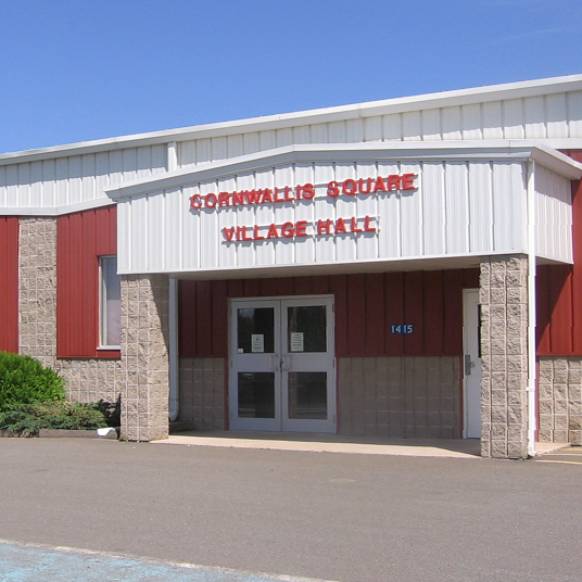 Photo of village commission hall, Cornwallis Square (Waterville) NS. Self made